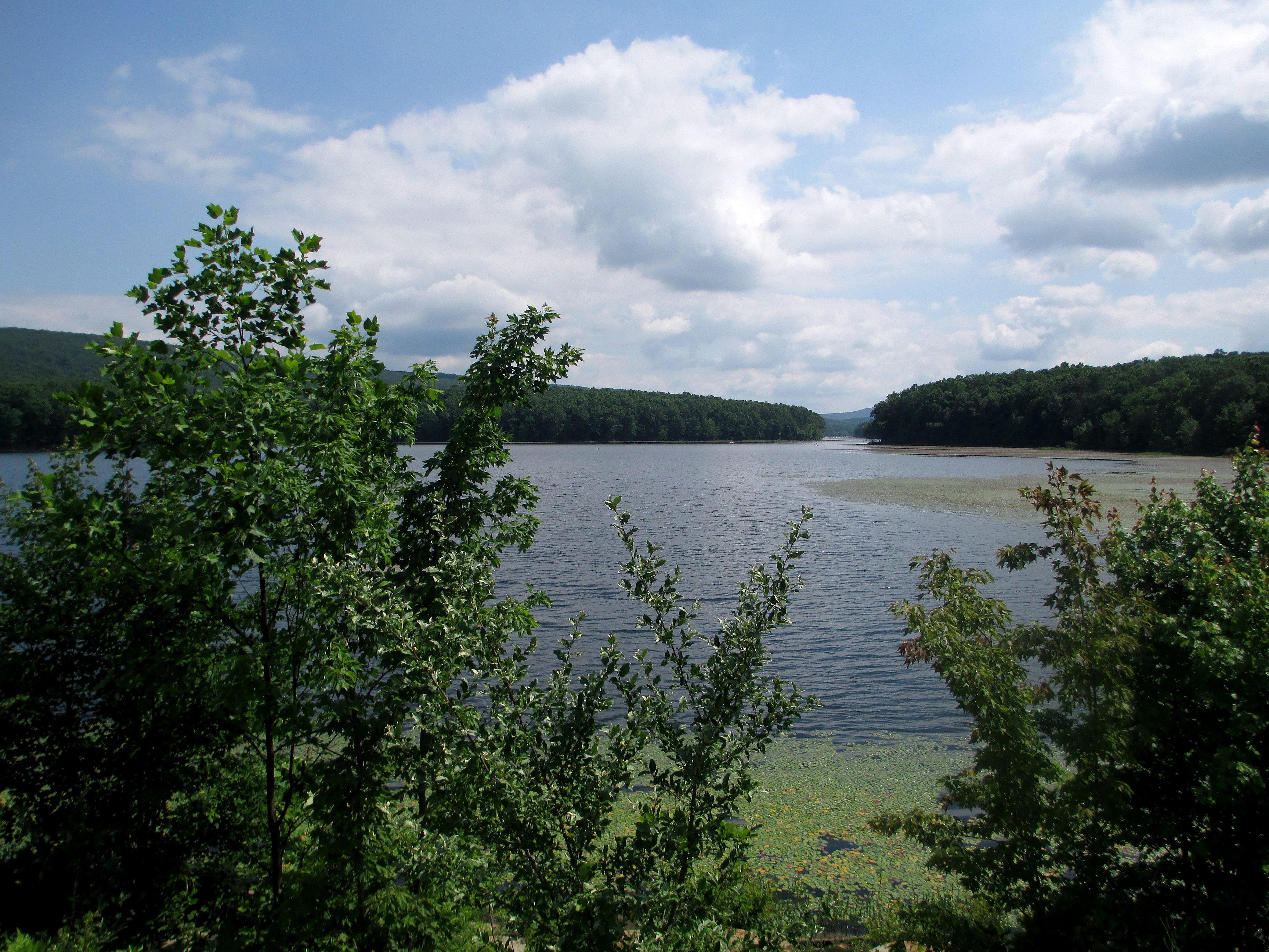 View of Sleepy Creek Lake in Sleepy Creek Wildlife Management Area, looking south from the impoundment, June 2016.